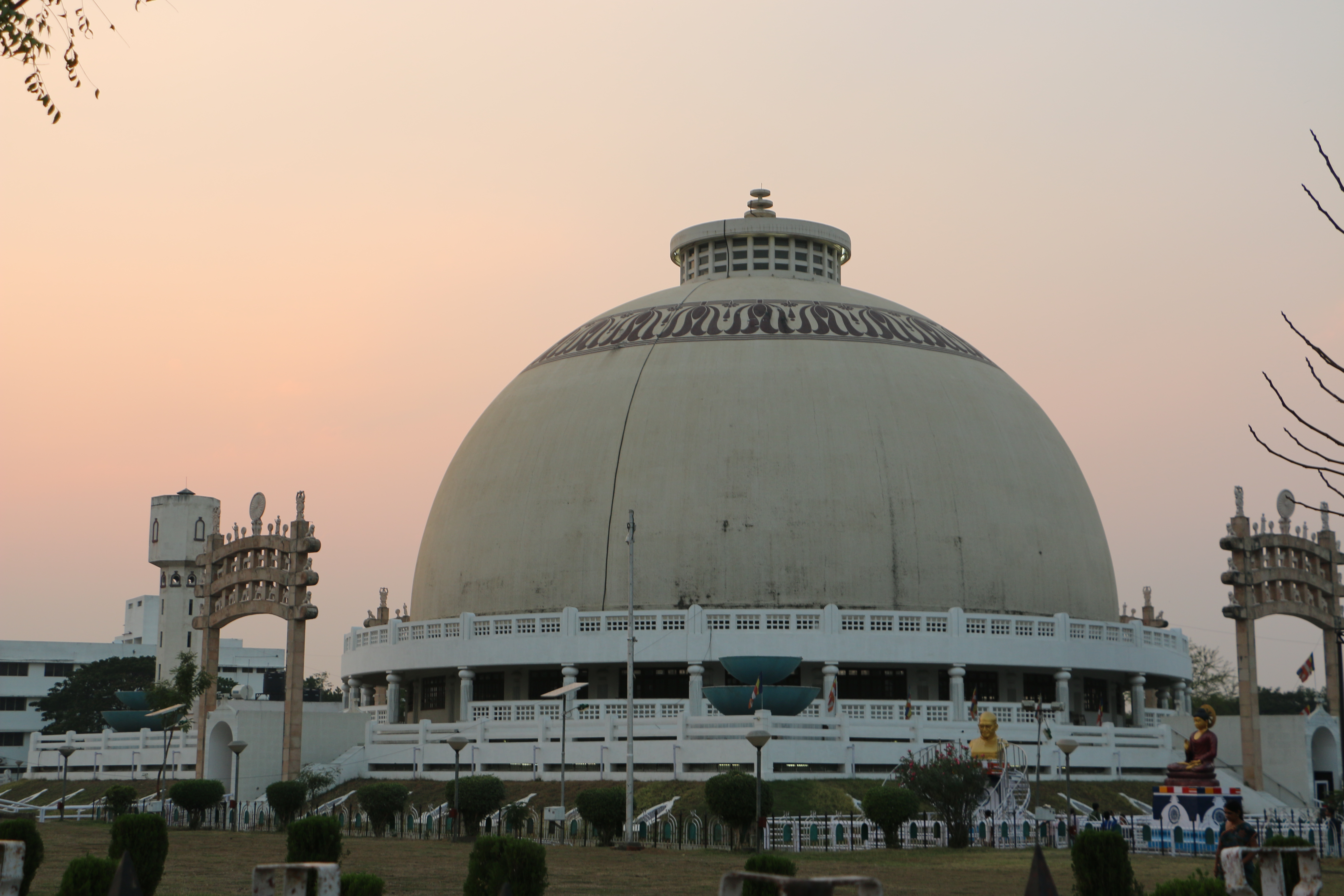 Dikshabhumi ,Nagpur